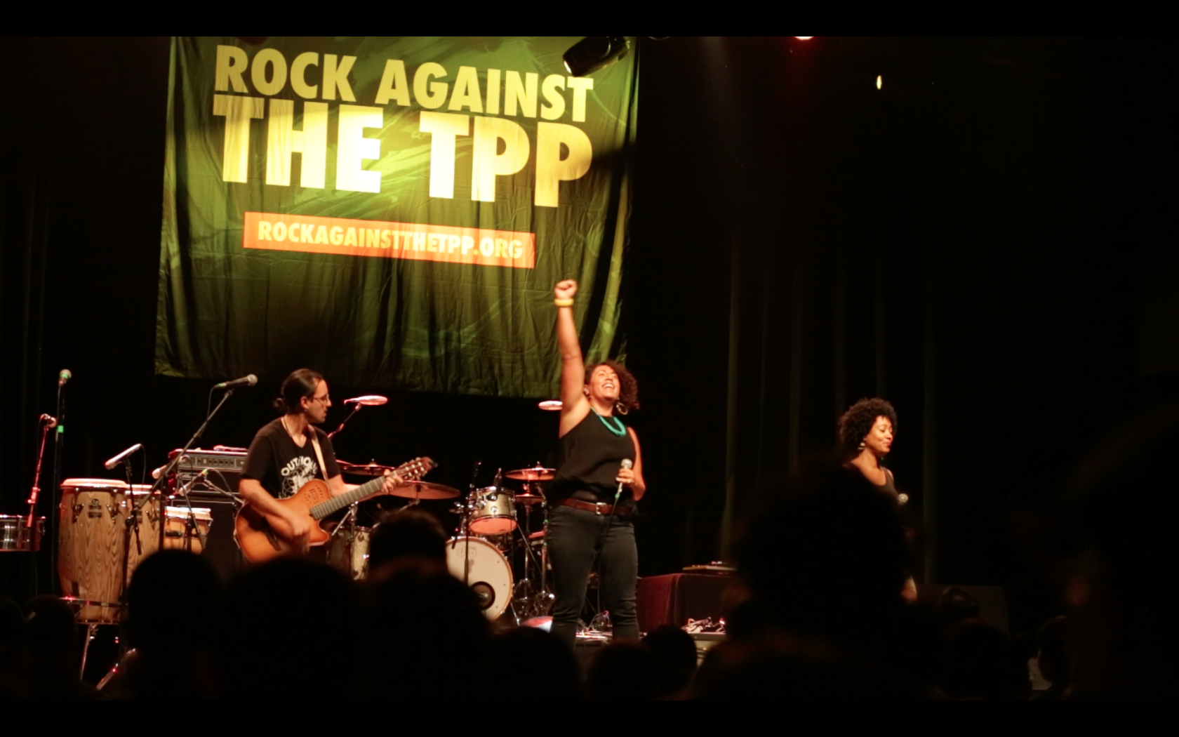 Taina Asili Y La Banda Rebelde at Rock Against The TPP (Trans-Pacific Partnership) Concert in 2019